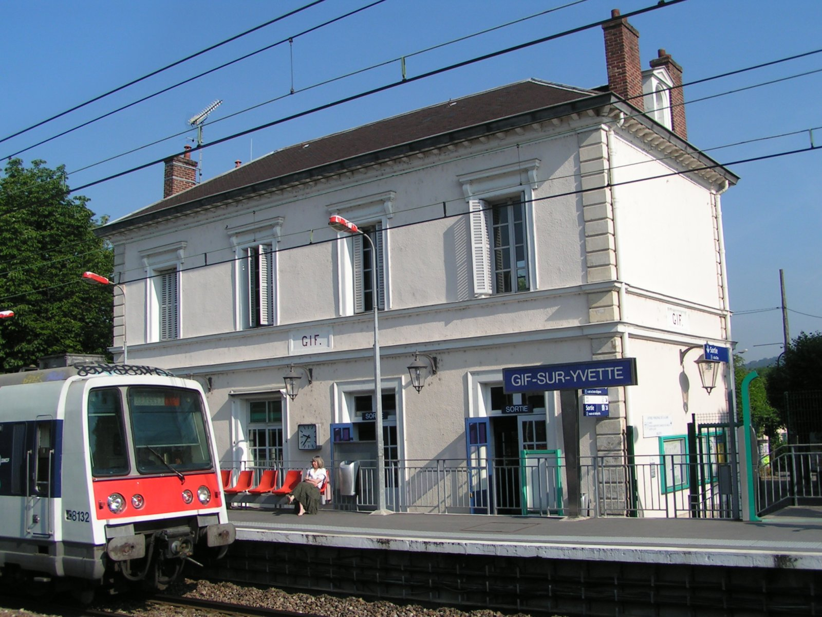 RER B station in Gif-sur-Yvette, tracks side